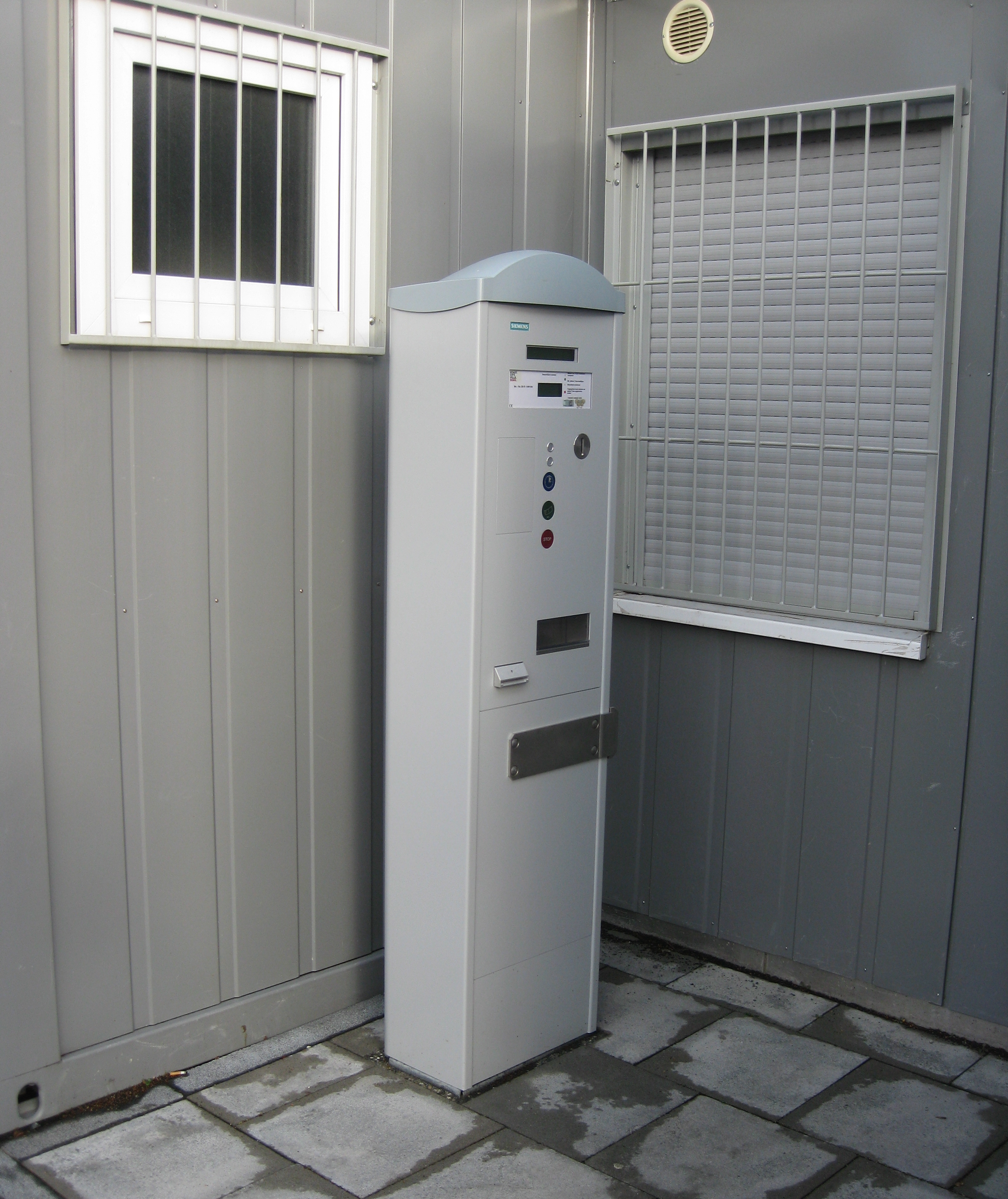 Germany, Bonn, Performing area, Immenburgstrasse: converted parking ticket machine for tickets to the tax statement for prostitutes.